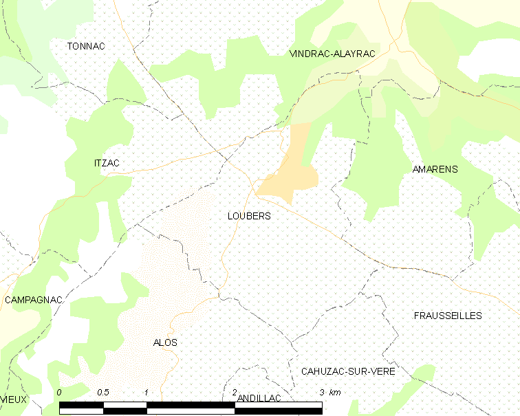 Map of French municipality Loubers